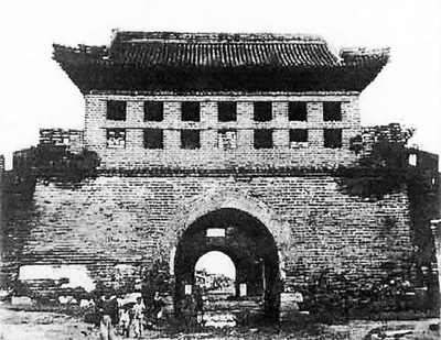 Youanmen Archery Tower, Beijing